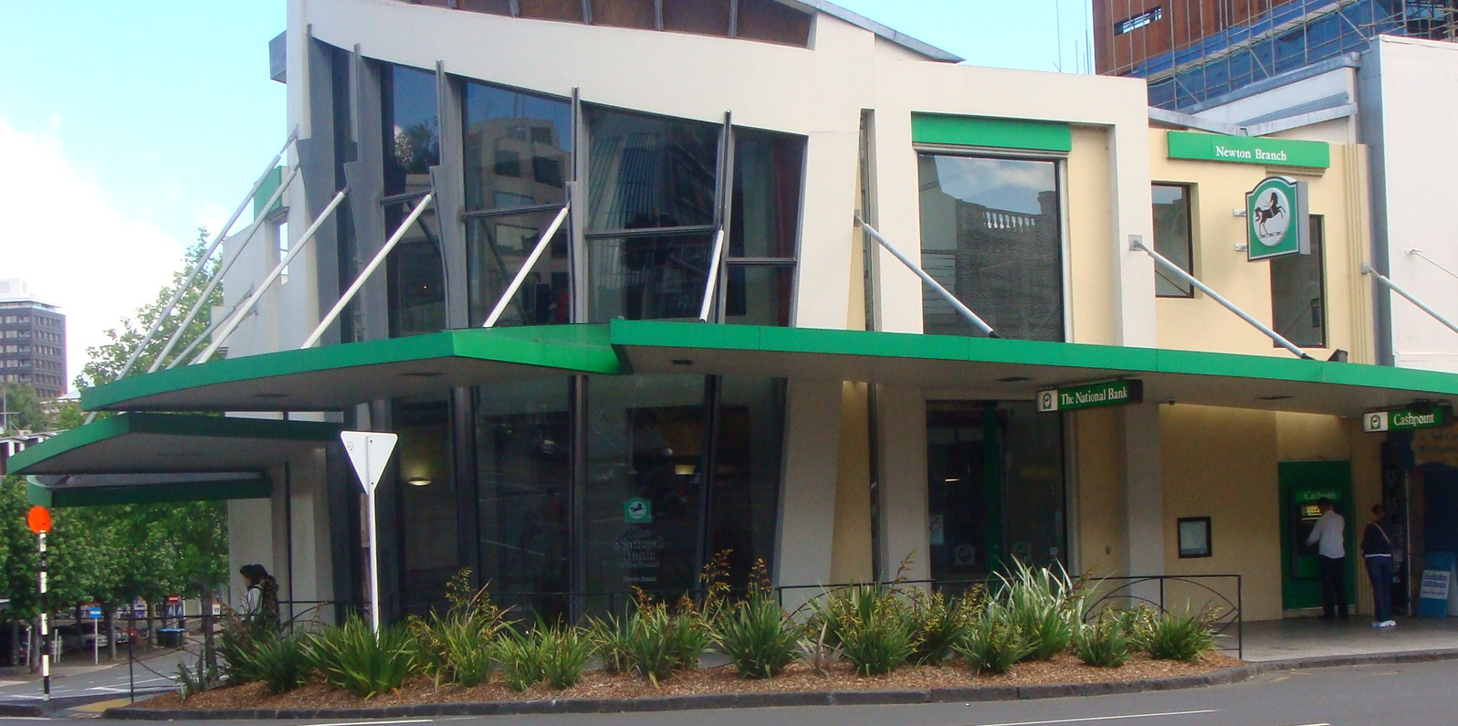 National Bank of New Zealand, Newton Branch, corner of Karangahape Road and Queen Street.